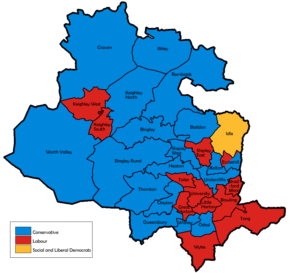 Ward map of Bradford Council with political colouring for the 1988 election.